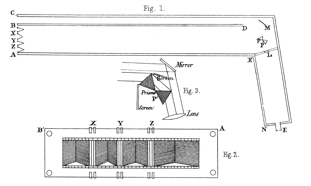 This image of the Colour Light instrument appeared in James Clerk Maxwell's publication in the Phil. Transactions titled "On the Theory of Compound Colours, and the Relations of the Colours of the Spectrum. Vol 150 pp 57-84 1 January 1860.